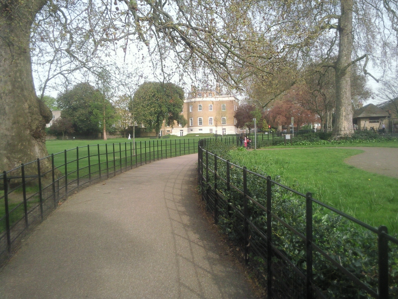 House built c. 1770-1772 for Thomas Lucas, West Indies merchant, architect: Richard Jupp; purchased in 1796 from Lucas's widow by banker Sir Francis Baring who lived there from 1797 until his death in 1810.